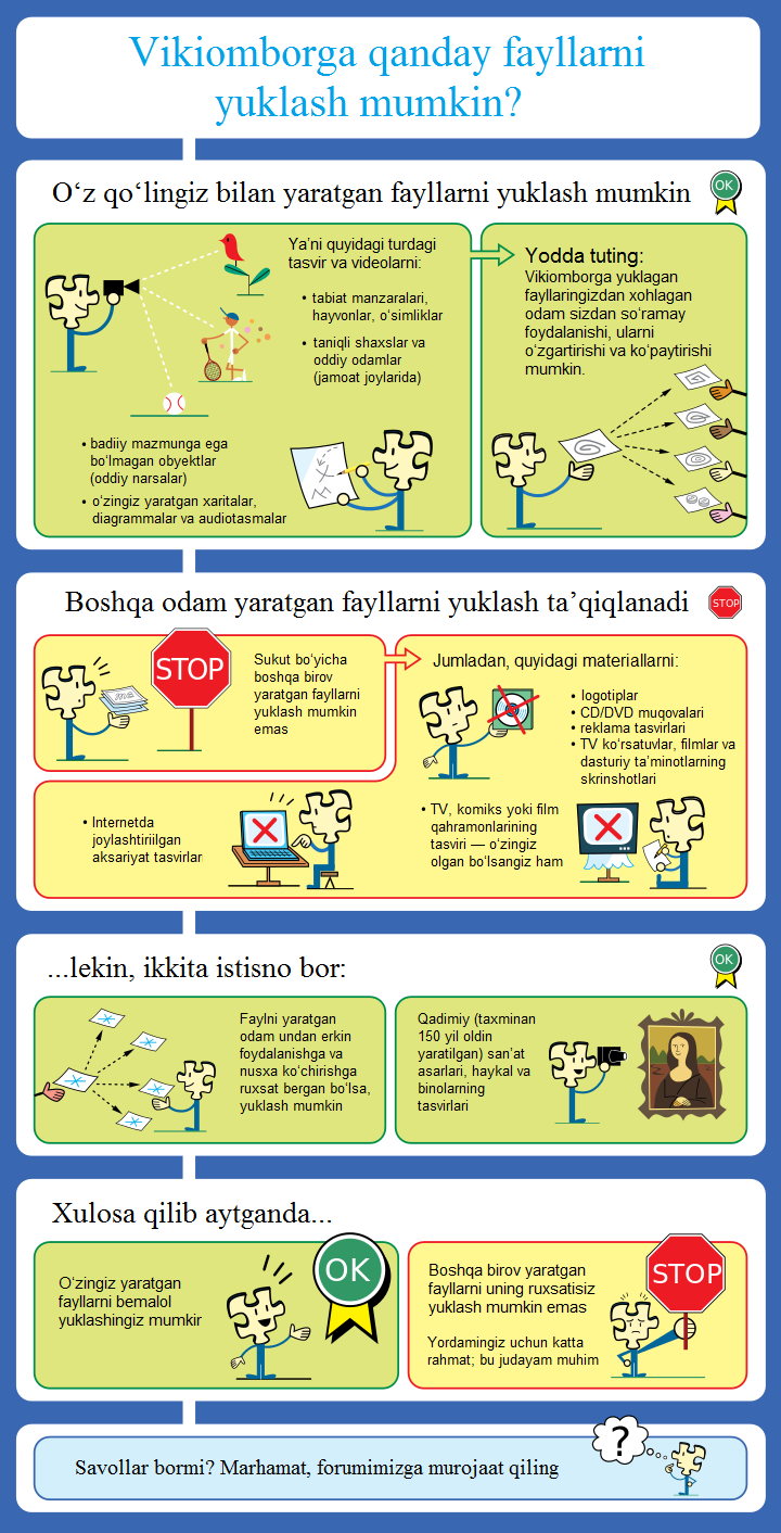 Licensing tutorial for Wikimedia Commons, to be included in the new upload wizard. Color SVG version in Uzbek.